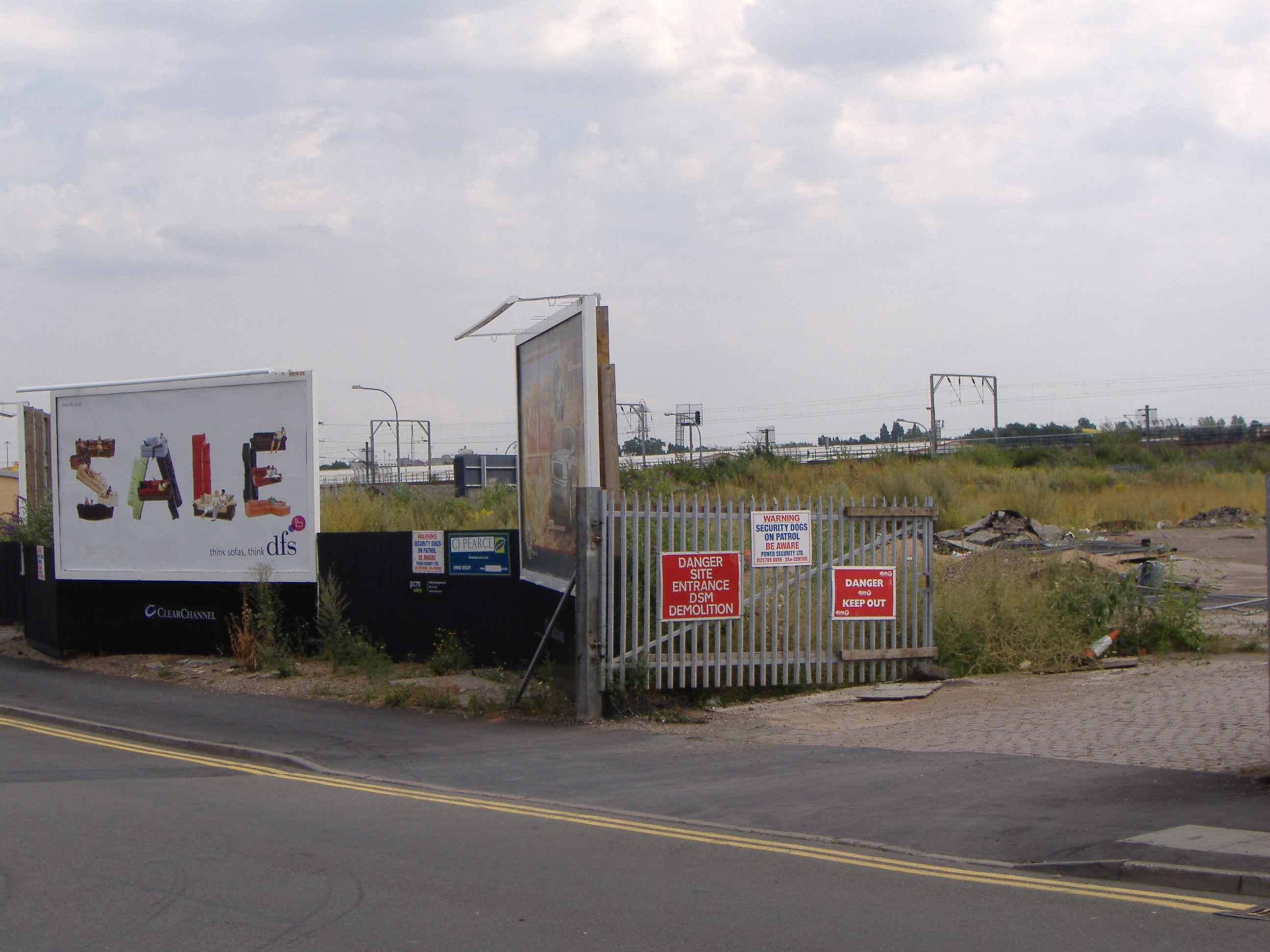 The future site of the Curzon Park in Birmingham, UK.